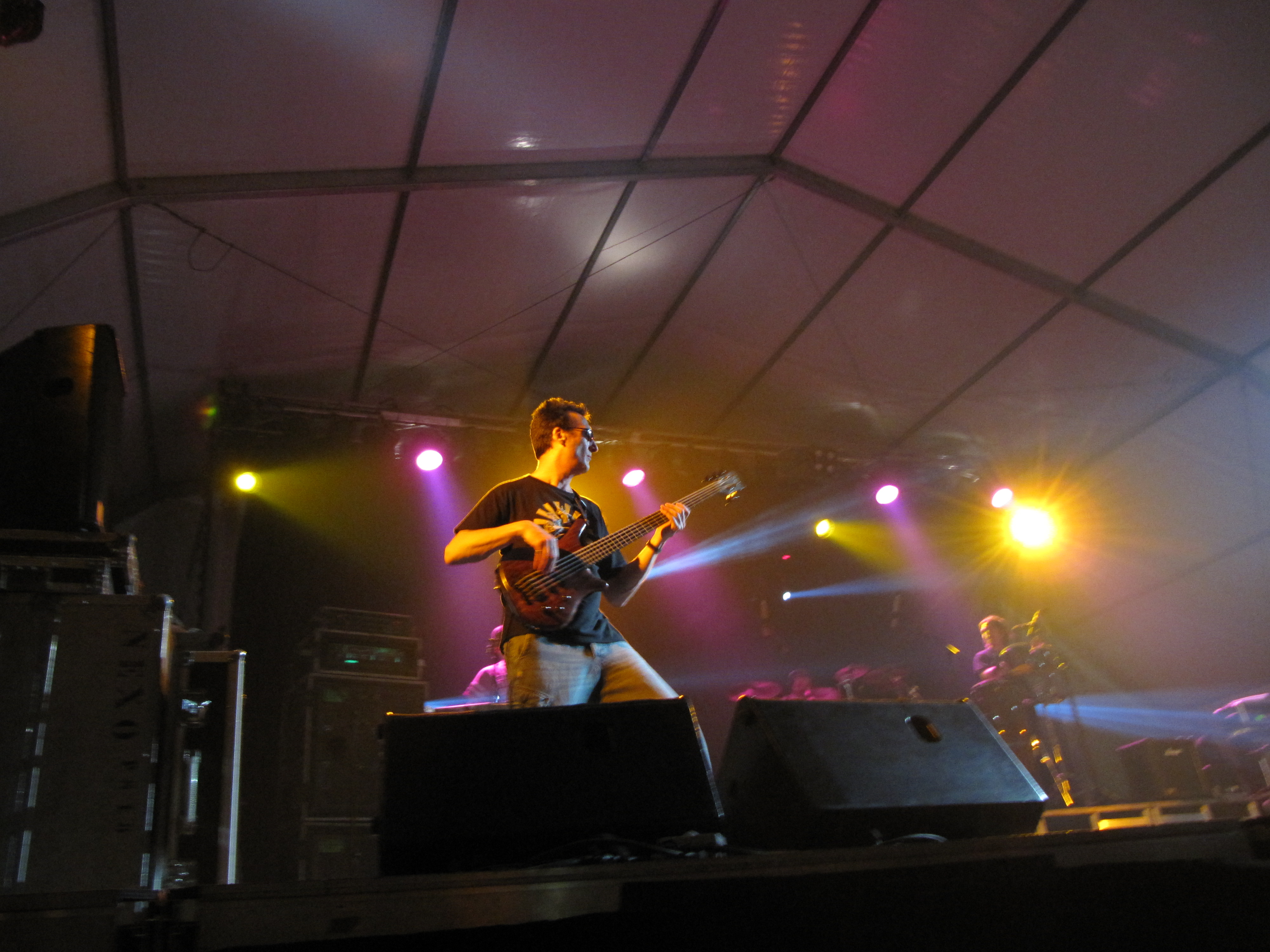 Danza Invisible performance.